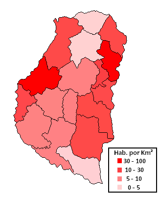 Population Density of Entre Ríos province